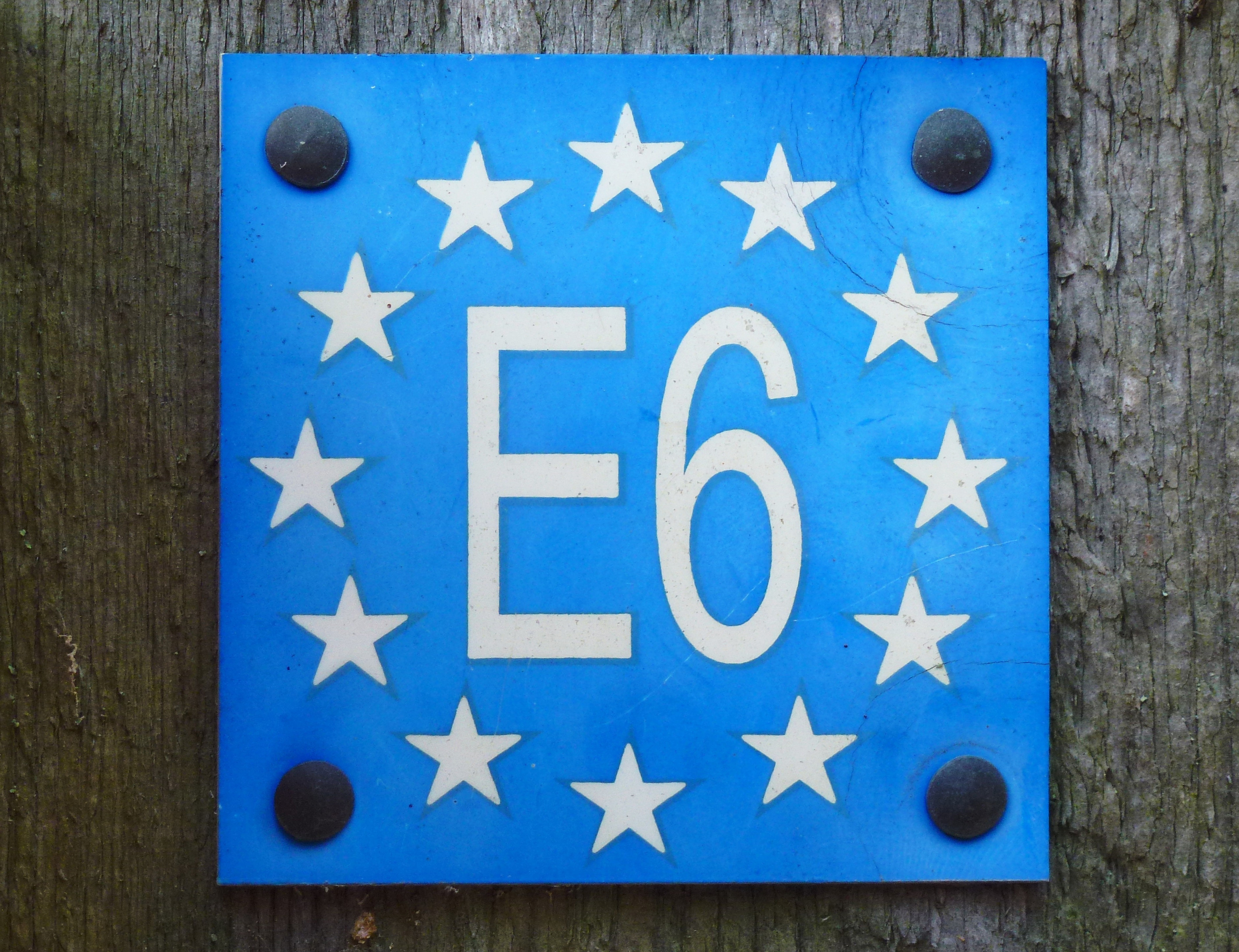 E6 European long distance path om Sörmlandsleden